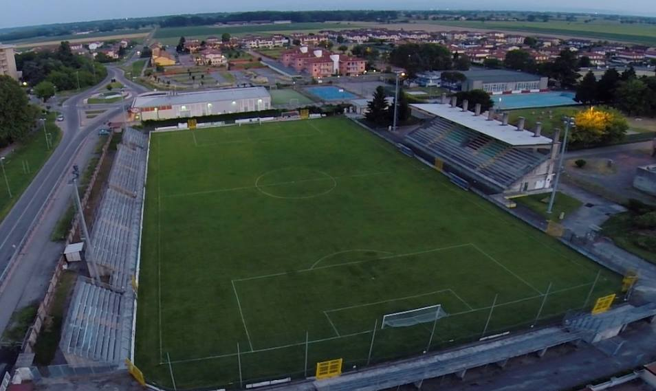 STADIO CARLO CHIESA